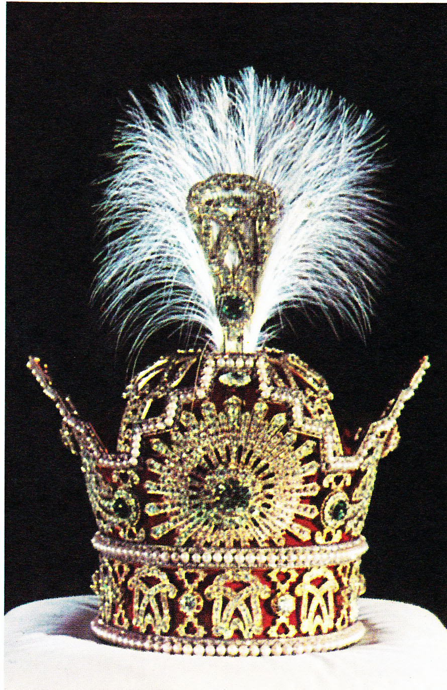 Pahlavi crown, 1926